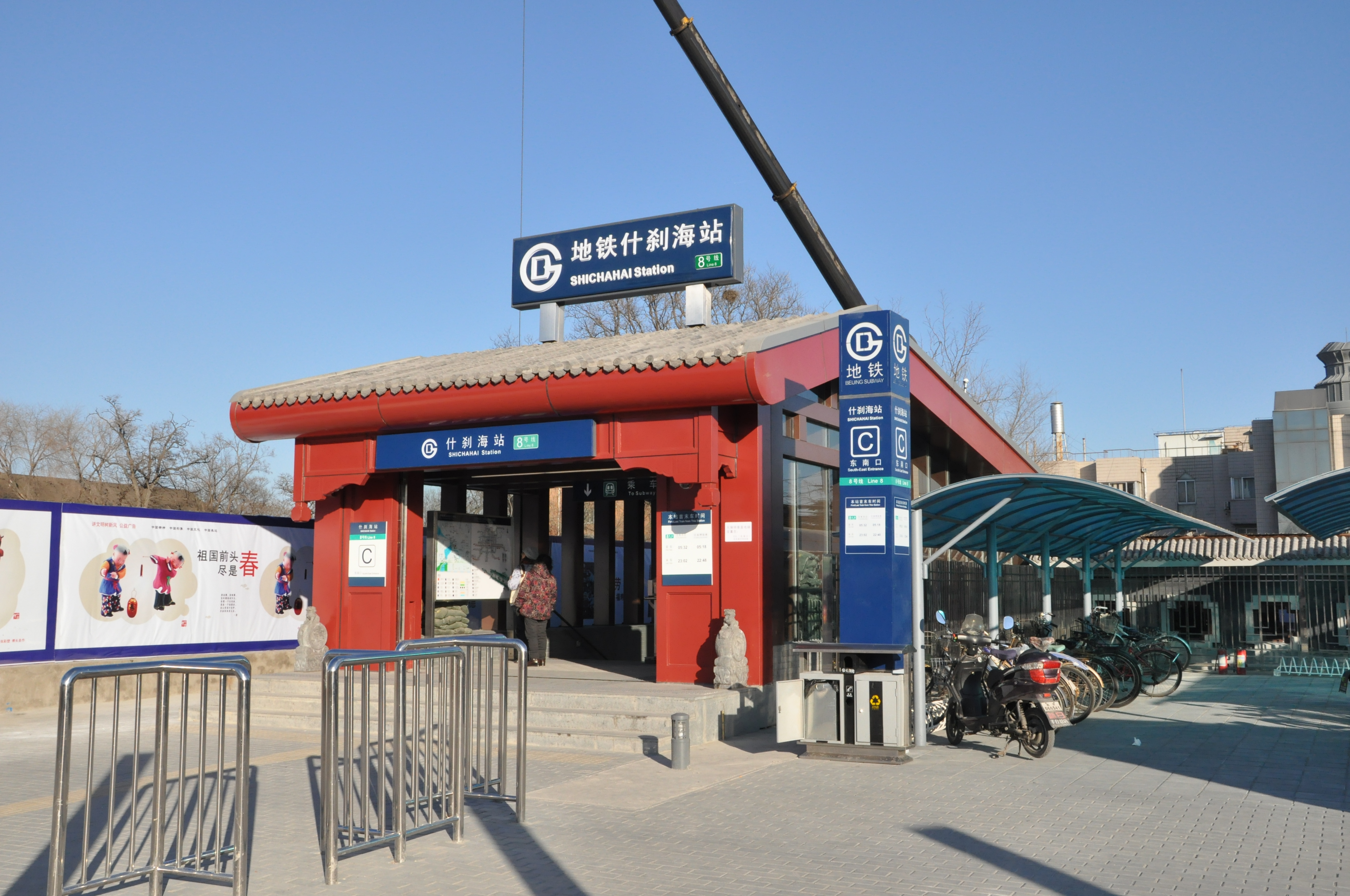 Entrance C, Shichahai station, Line 8, Beijing Subway.